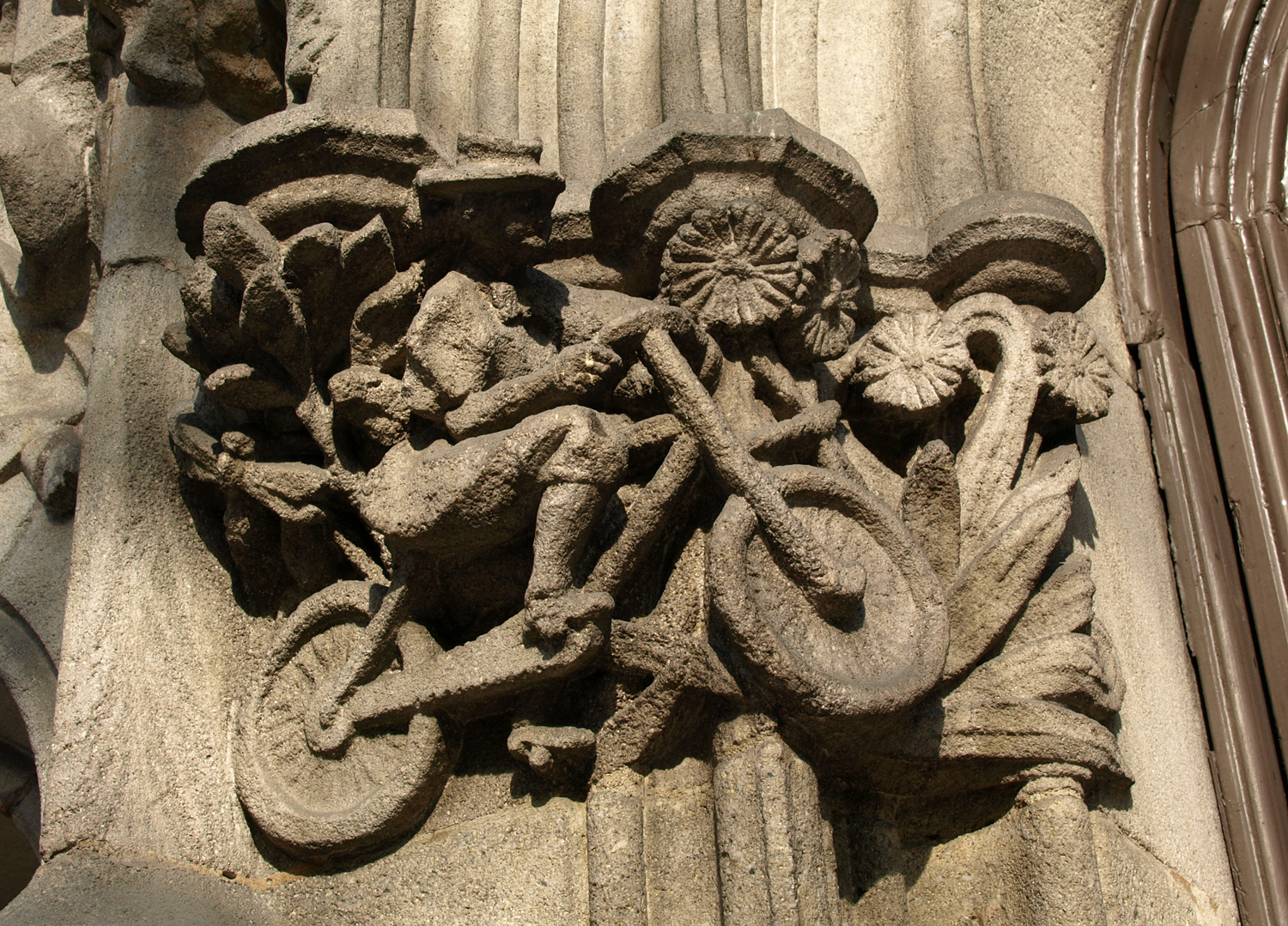 Casa Macaya - Catalan Modernisme (1901, Josep Puig i Cadafalch)